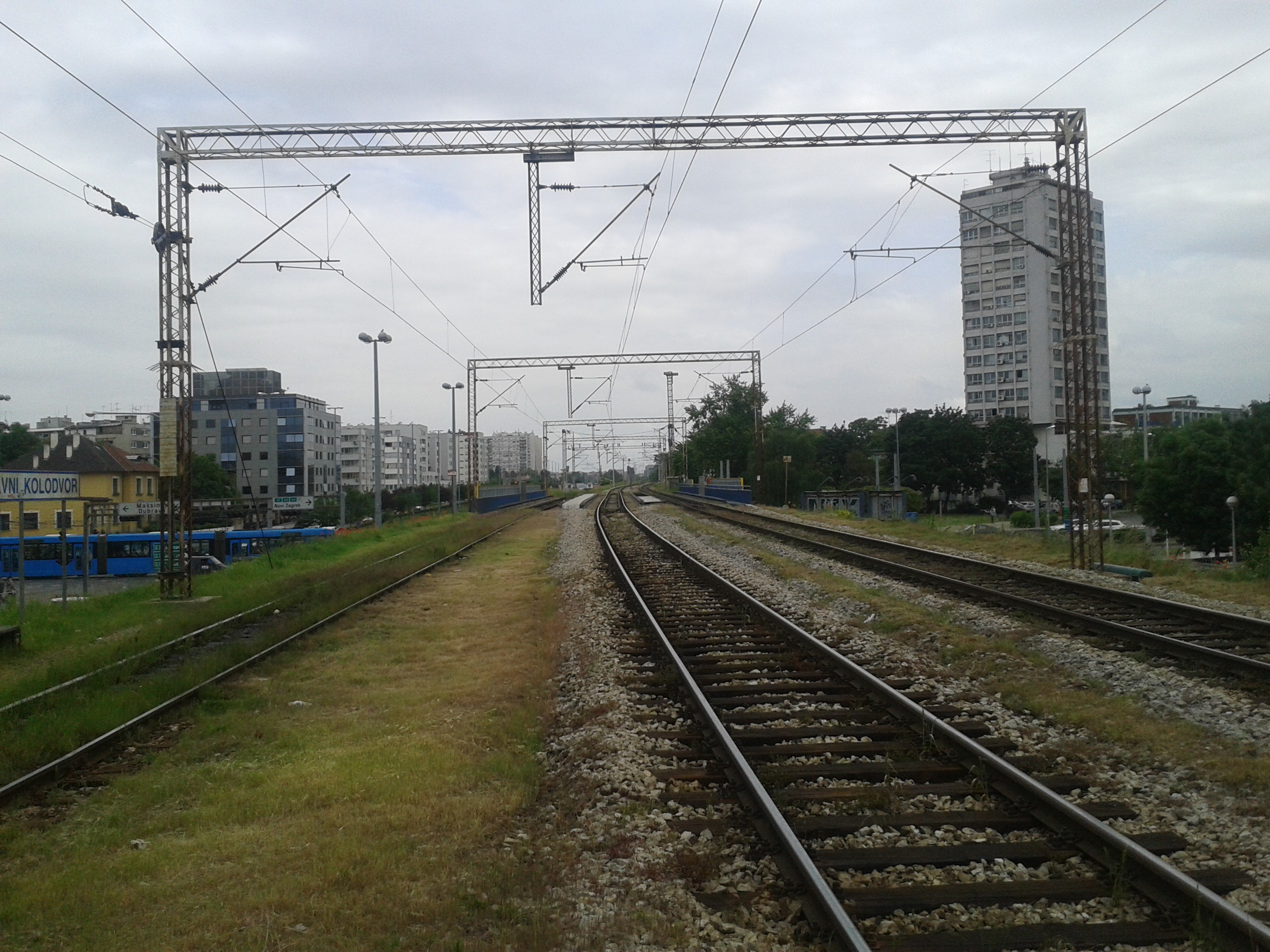 View to the east from the overpass Strojarska street. Can be seen overpass Držićeva street about 100 m away.